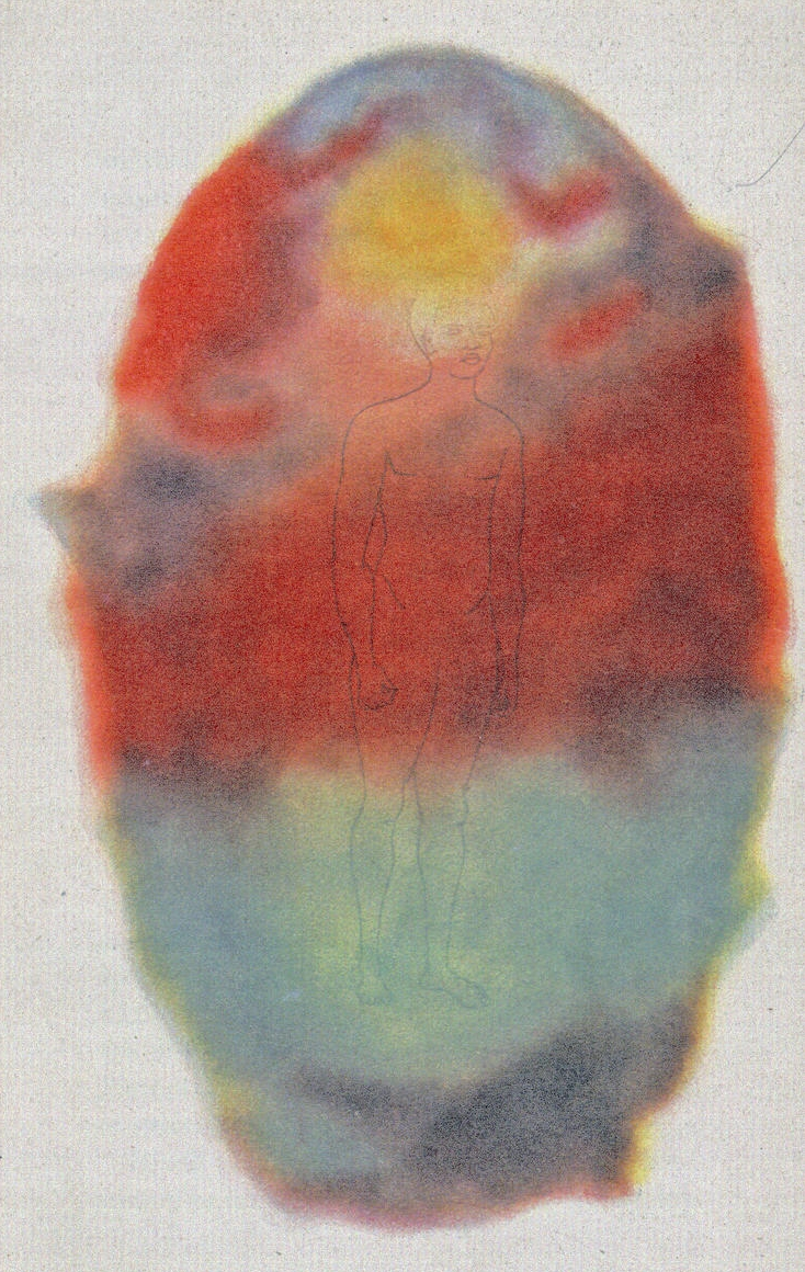 Astral body of savage man